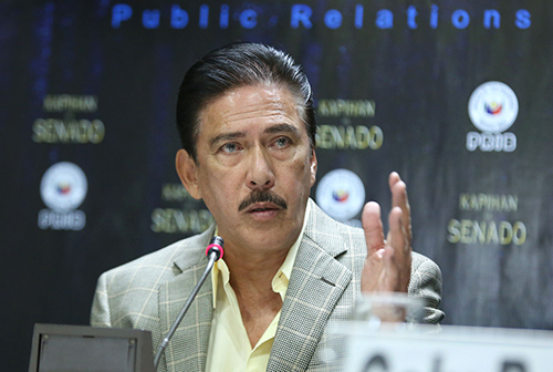 Senator Vicente “Tito” Sotto III tells media during the Kapihan sa Senado the importance of having regular Legislative Executive Development Advisory Council (LEDAC) meetings to facilitate high level policy discussions on vital issues and concerns affecting national development, and to ensure that the legislative agenda of President-elect Rodrigo Duterte is discussed and acted upon.